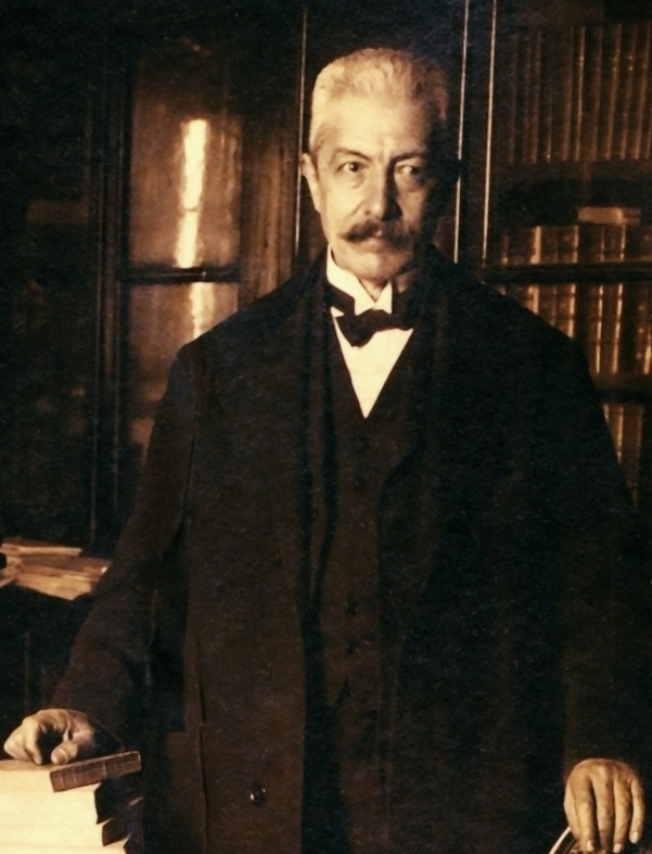 Picture of Miguel Lillo in their library (Tucumán, Argentina, 1921) Restore by Prof. Andrés L. Ortiz from original in the Archivo museo histórico dr. Miguel Lillo y su tiempo